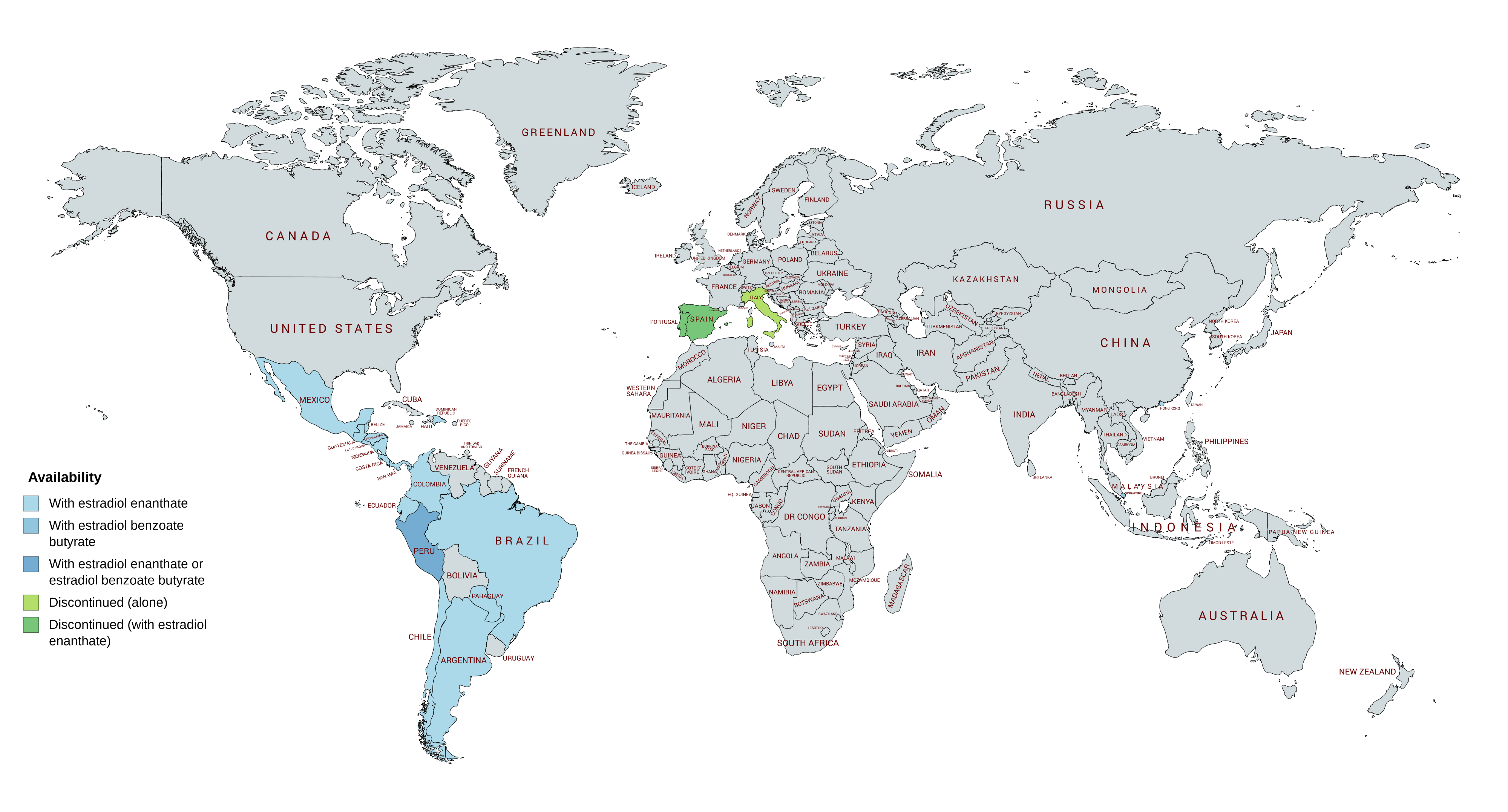 Known availability of algestone acetophenide as of September 2018. Created from source material using . Source of the information: See Algestone acetophenide#Availability and references.